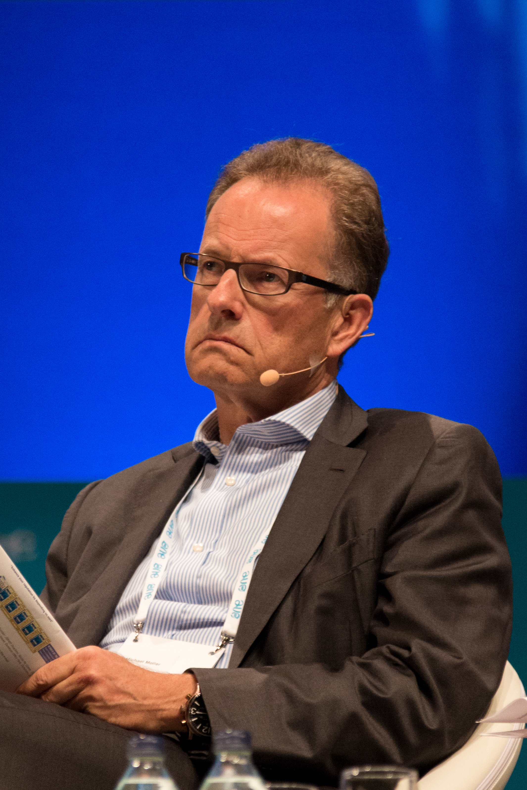 Michael Møller, United Nations Under-Secretary-General, Acting Director-General of the United Nations Office at Geneva and Secretary-General of the Conference on Disarmament and Personal Representative of the UN Secretary-General of the Conference, at the 2014 One Young World Conference in Dublin, Ireland.